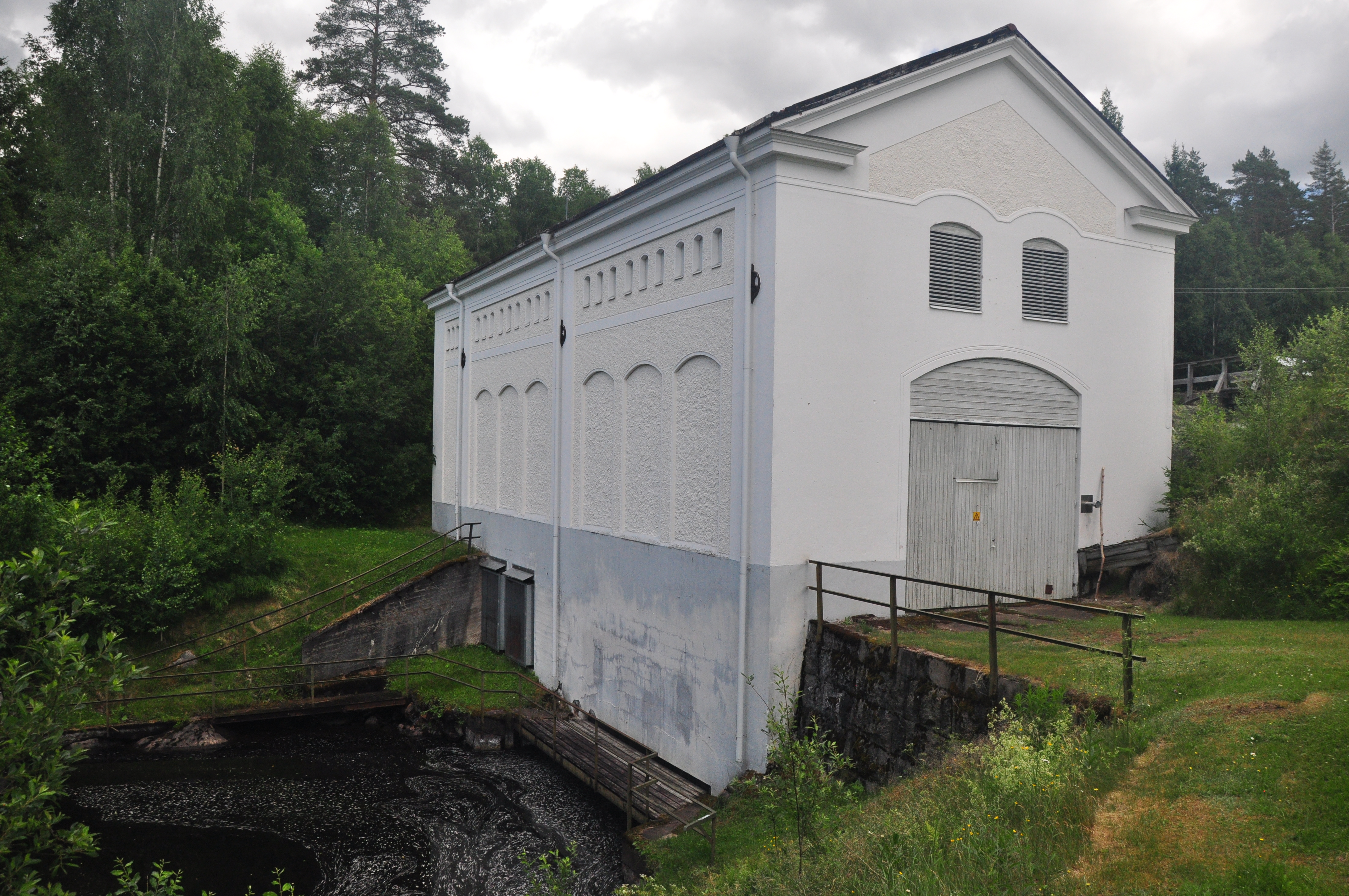 Malta power plant in Hagfors municipality